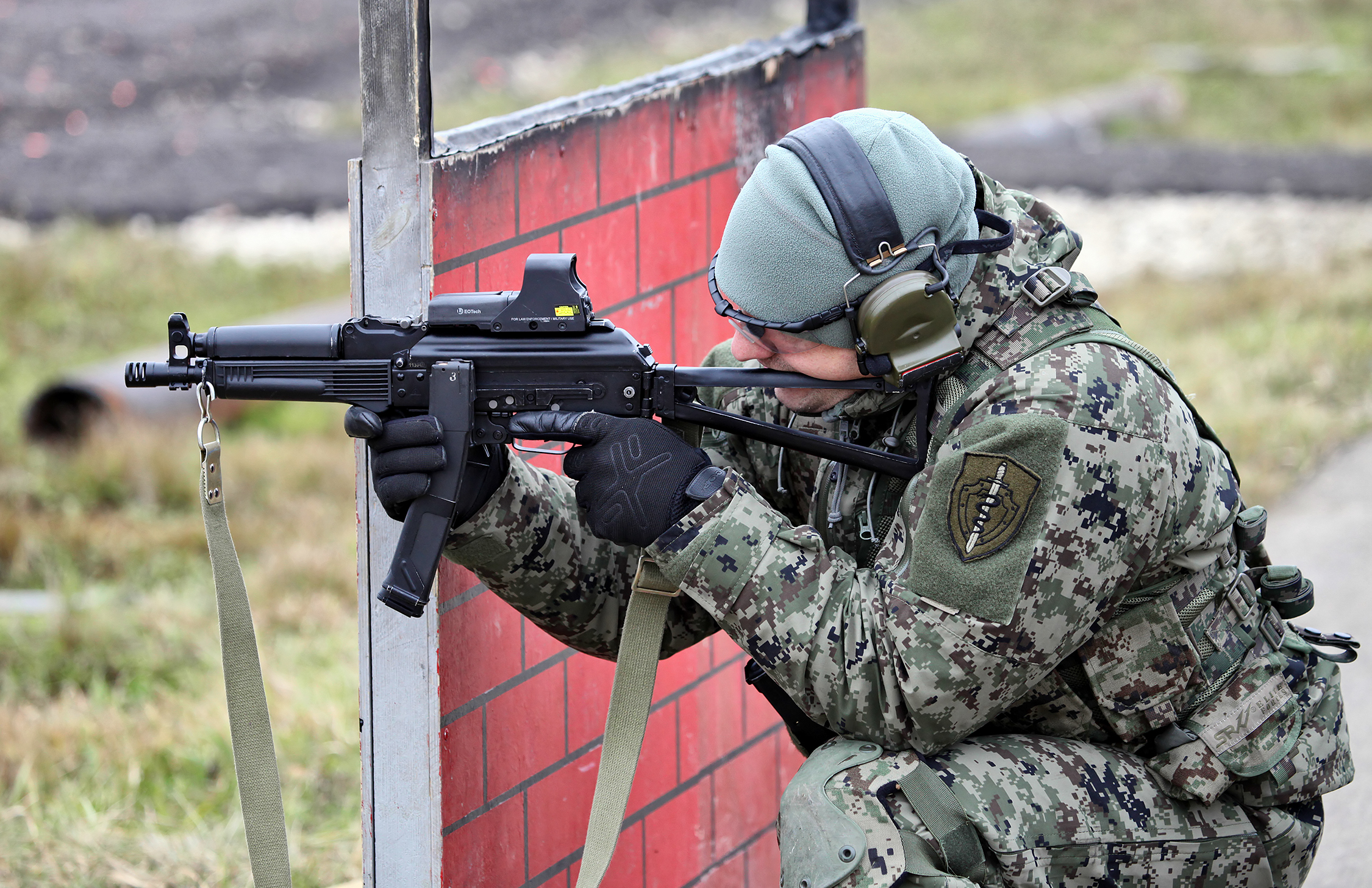 PP-19-01 Vityaz-SN submachine gun